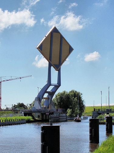 Slauerhoffbrug ‘Flying’ Drawbridge. Located in Leeuwarden, Netherlands.